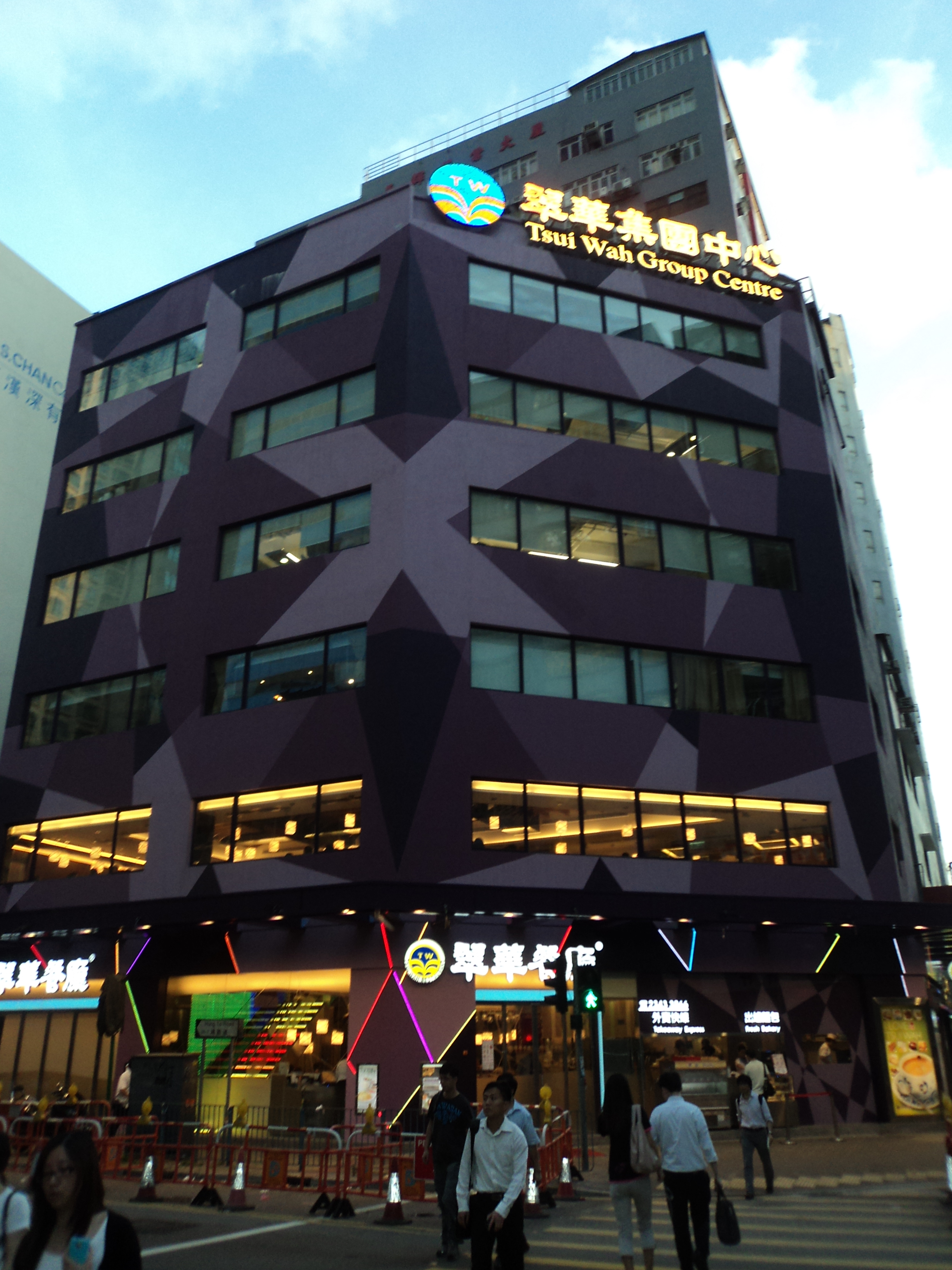 Tsui Wah Group Centre, Hung To Road, Ngau Tau Kok, Kwun Tong, Kowloon, Hong Kong.